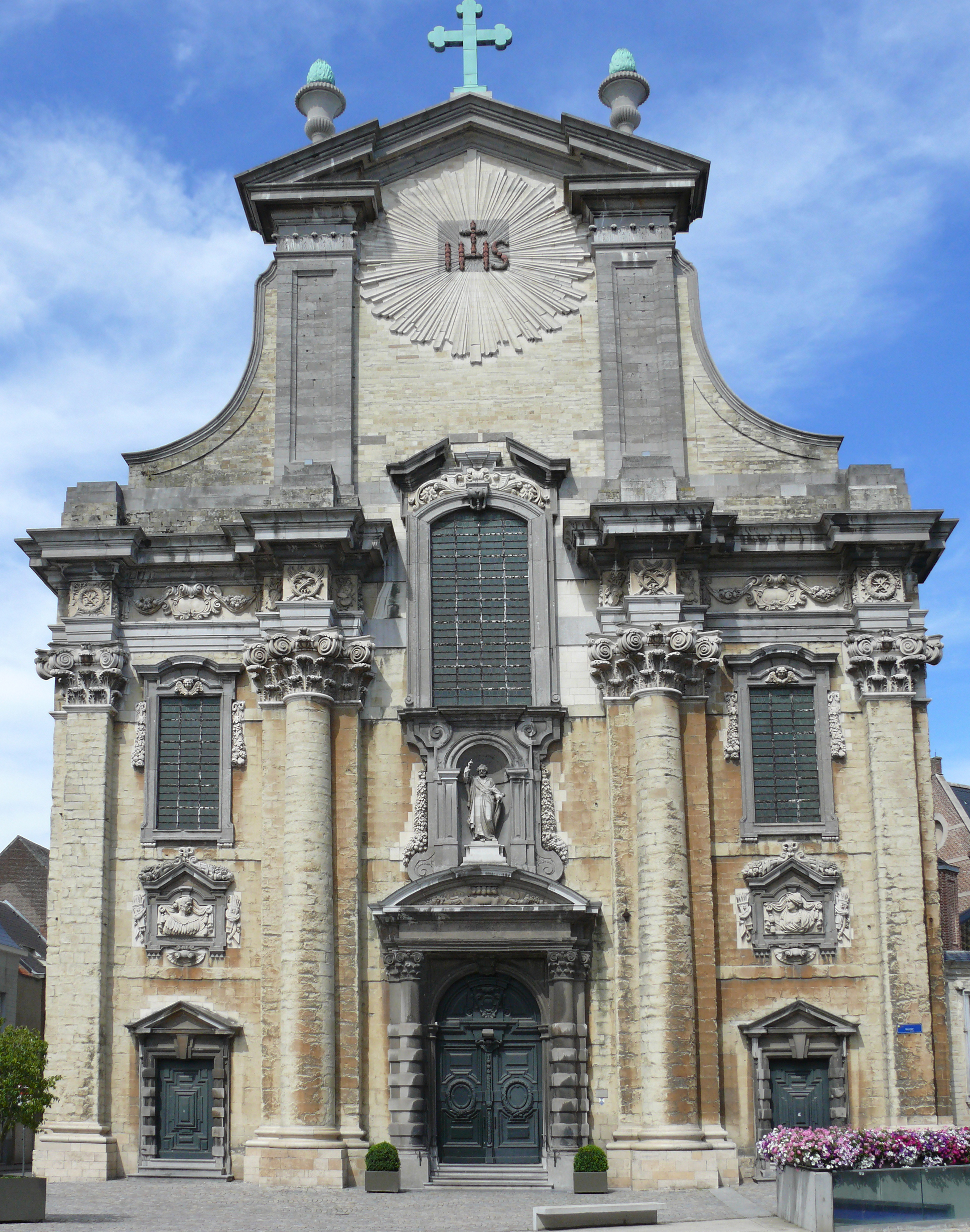 The Sint-Pieters- en Pauluskerk (Saint peter's and Paul's Church) is a former Jesuit Church in Mechelen